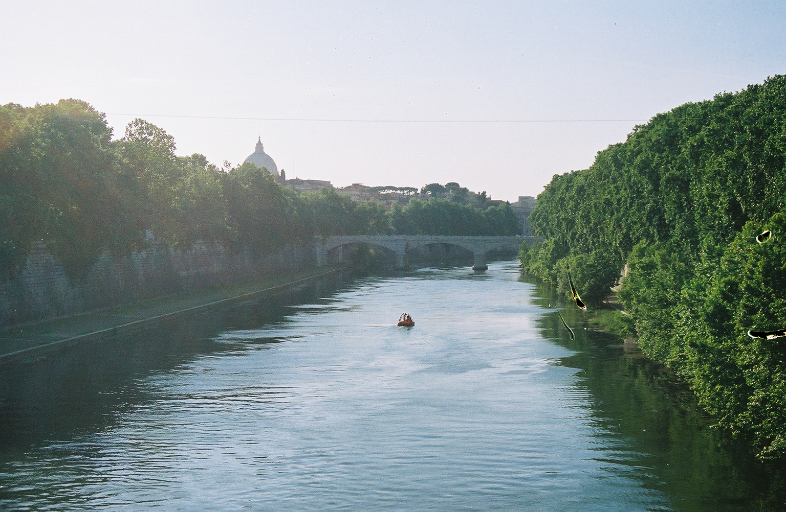 Tevere, Roma, Italy.